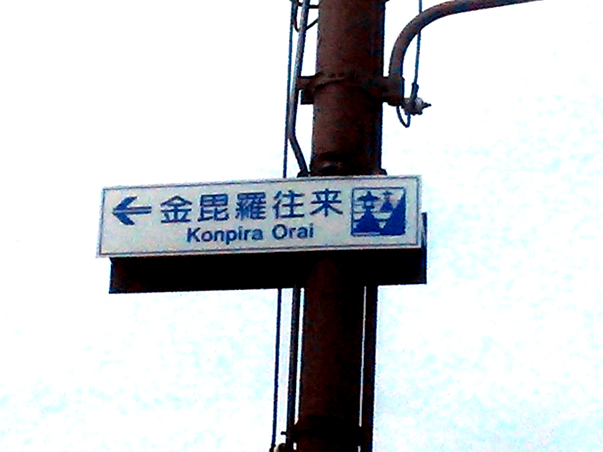 "Konpira Orai"road's traffic sign. at Hayashima, Okayama, Japan.